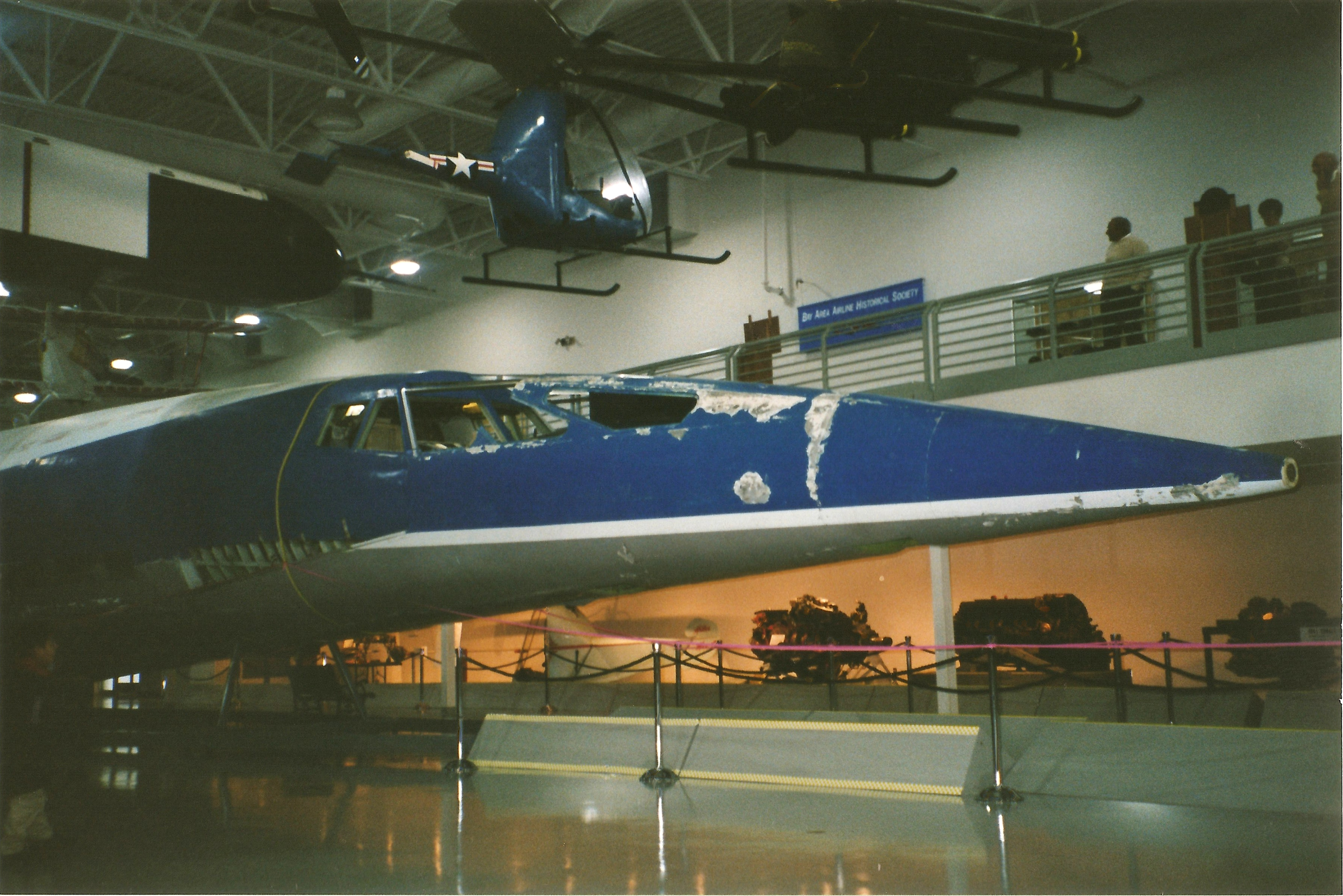 Boeing 2707-200 SST mock-up nose, Hiller rotortip engine light helicopters at Hiller museum